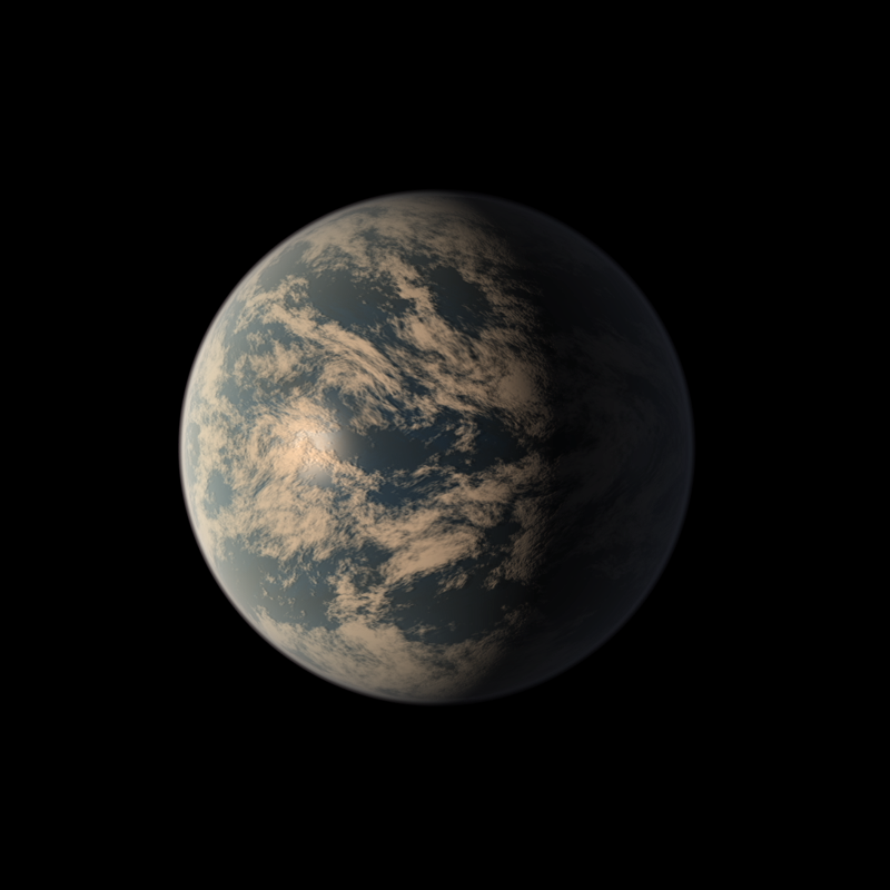 Artist's impression of TRAPPIST-1d planet, as of 2018